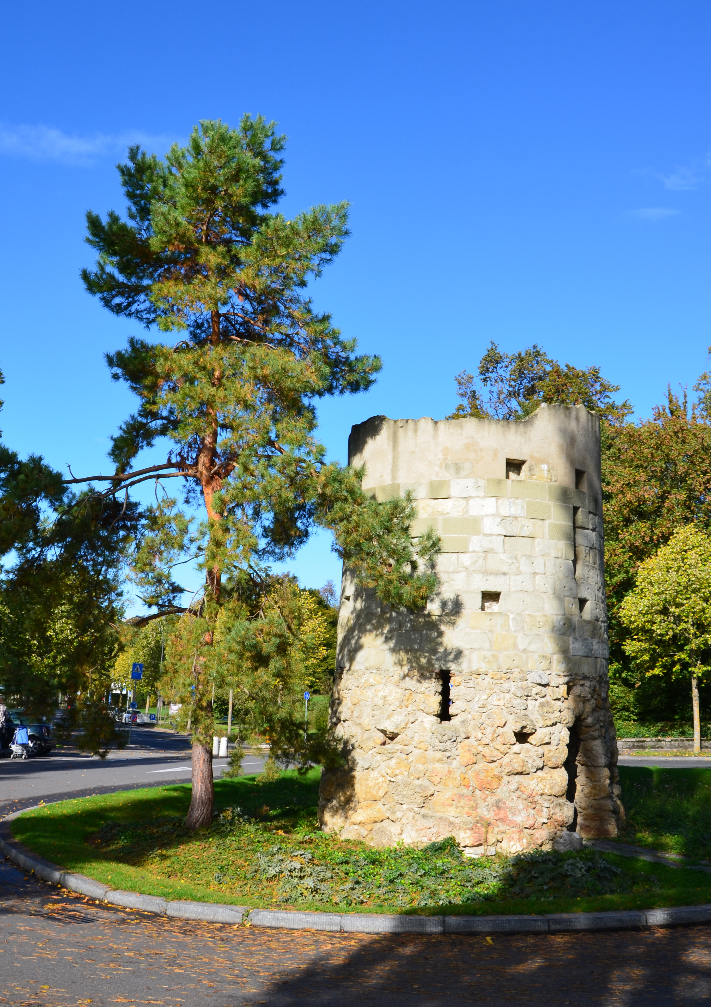 The Haldimand Tower, in Lausanne (Switzerland)